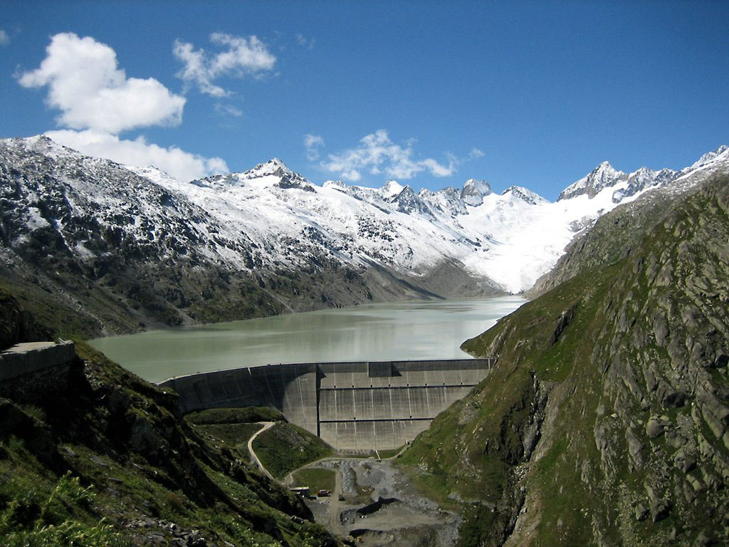 Lake Oberaar and Oberaar-Dam on Grimselpass, Bernese Oberland, Canton of Berne, Switzerland. Oberaarhornglacier. Left Geschinerstock 2856m, Blatthörner 3040m, Löffelhorn 3095m, Roossehörner and Roosseejoch 3132m, Oberaarrothorn 3477m, Nollen 3402m,Oberaarjoch and Oberaarhorn .